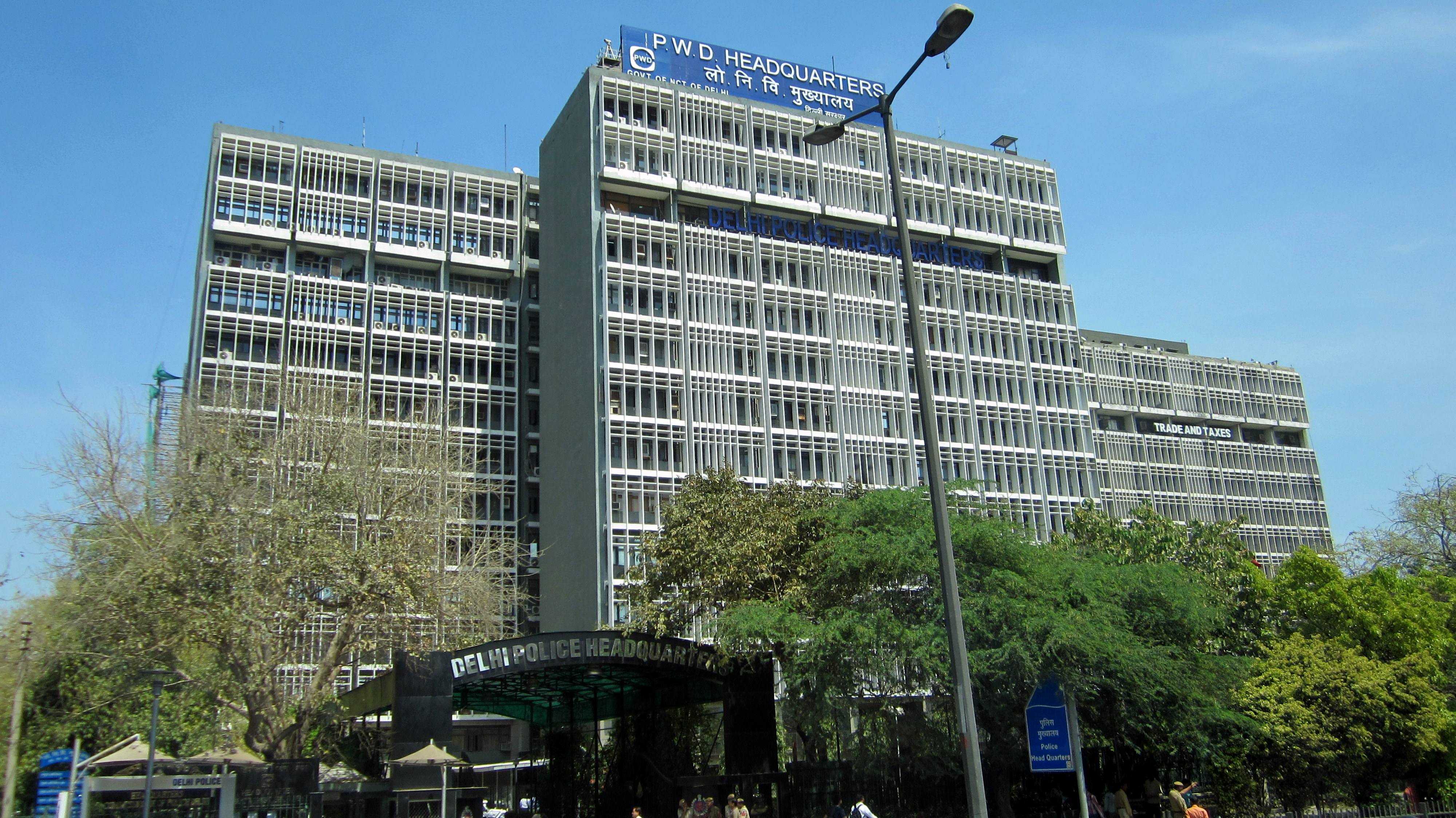 Delhi Police headquarters located at Indraprashta Marg in New Delhi